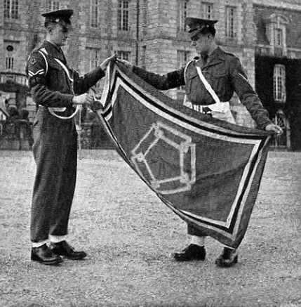 NCOs of the Corps of the Royal Military Police displaying the Western Union Standard, which Incorporates the badge of the Headquarters, Western Europe, Commanders-in-Chief, at Château de Courances